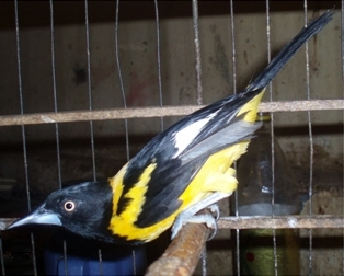 Photo of Icterus jamaicaii.